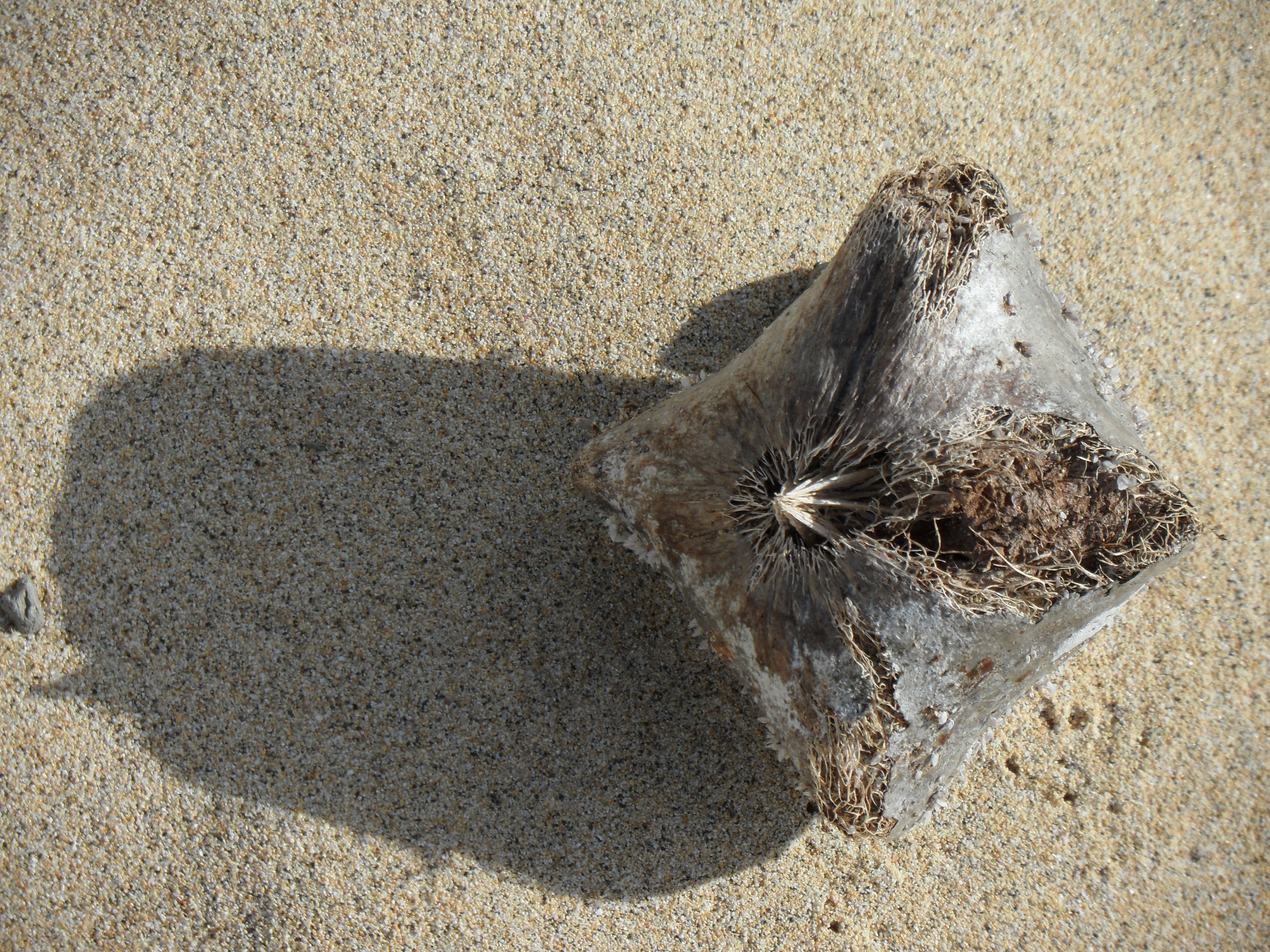 Barringtonia asiatica SW Pacific Drift Blinky Beach LordHoweIsland 9June2011